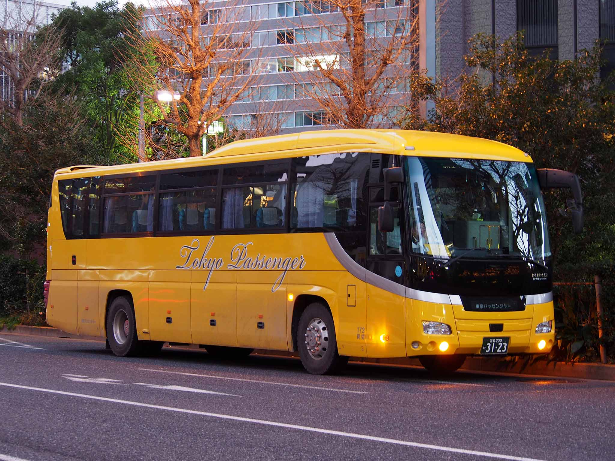 Fleet of Tokyo Passenger (ex.Uchiyama Kanko Bus). Model: Hino SelegaHD (2nd) License plate: TKA200KA3123 Place: Nishi-shinjuku, Shinjuku Ward, Tokyo Japan